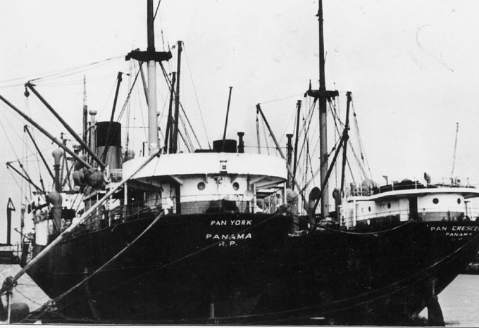 "Kibutz Galuyote" ("Pan York") and "Atzmaute" ("Pan Crescent") Waiting to sail from the port of Constanta, December 1947, December 1947